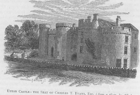 Upton Castle, Pembrokeshire. Thomas Nicholls “Annals and Antiquities of the Counties and County Families of Wales, Longmans, London 1872. Vol 2, 836